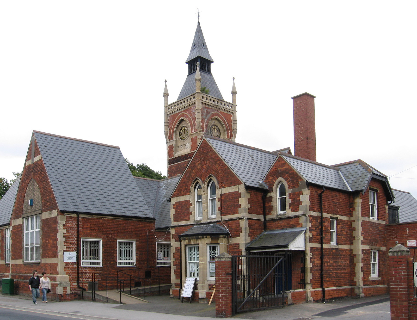 Grimsby - former Elementary School